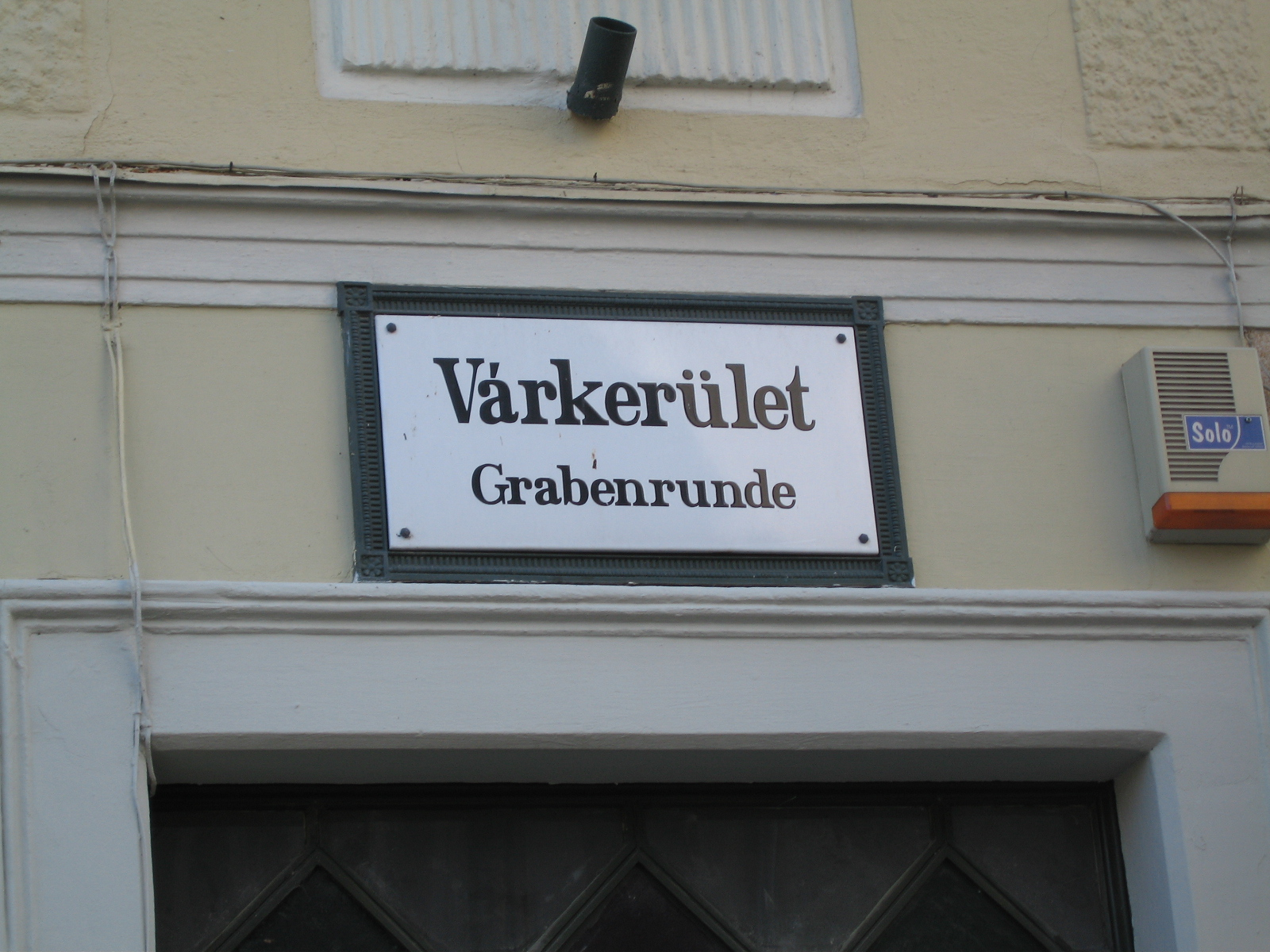 There are several bilingual street signs in Sopron (Ödenburg), Hungary, like this one of the Várkerület / Grabenrunde